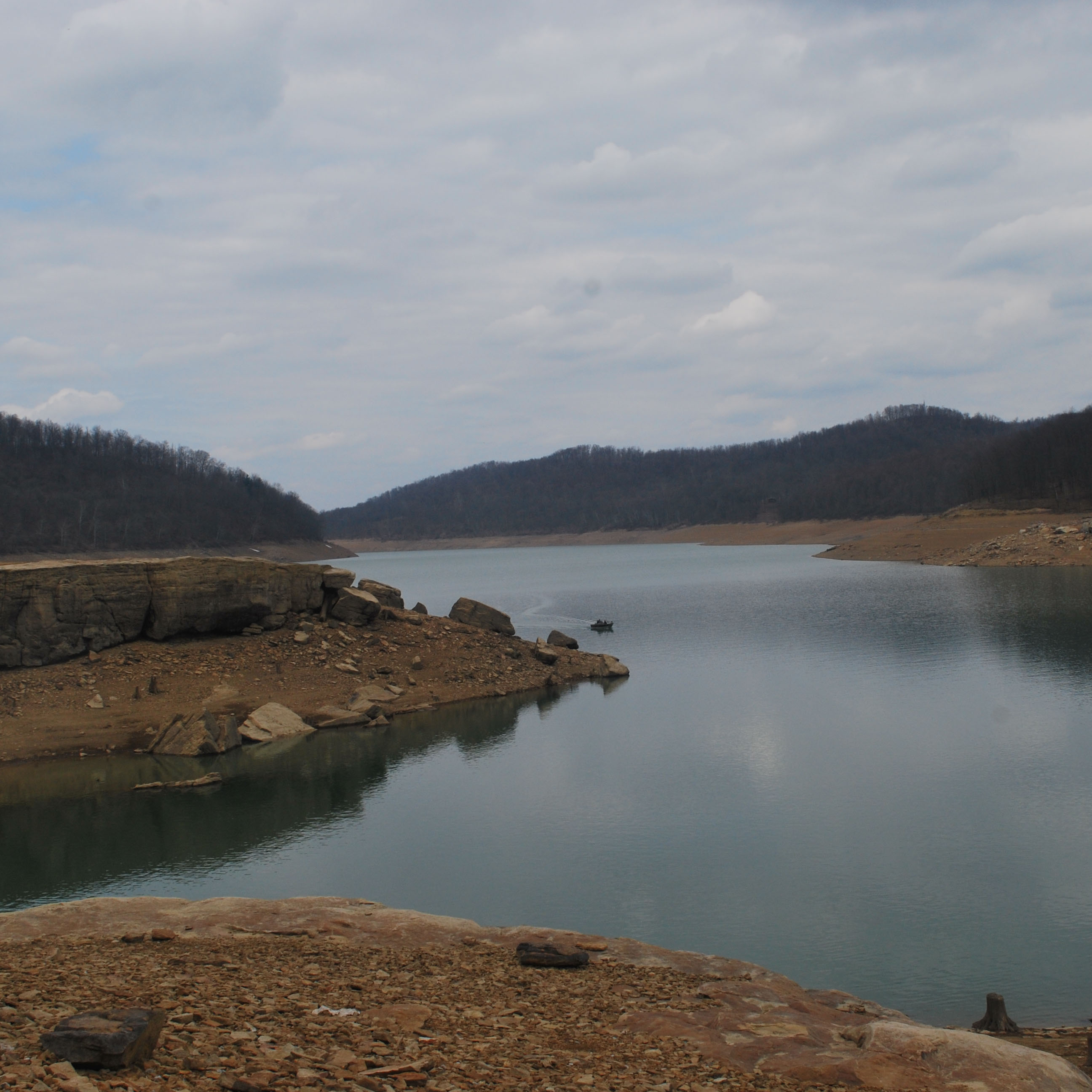 Tygart Lake in winter, taken from near Pleasant Creek Wildlife Management Area boat dock.